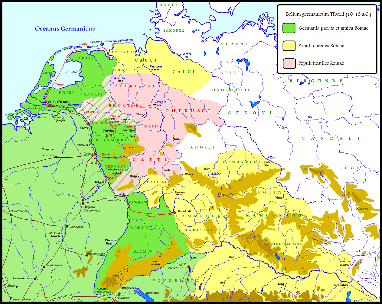 Tiberian campaigns against german peoples from 10 to 12 A.D., after clades Variana